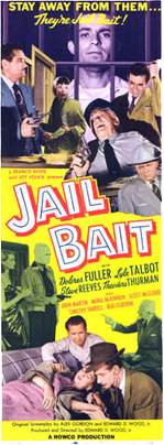 Film poster for Jail Bait (1954). Contents 1 Licesing 2 Public domain explanation 3 Licensing 4 Original upload log Licesing Public domain explanation The image was published as an advertisement in the U.S. in 1953. There is no evidence that copyright notice was originally filed on the image, as then required. For instance, this image evidently shows the entire poster and no copyright notice. A search of U.S. copyright renewal records both generally and with a specific focus on 1986 and 1987 reveals no evidence that either Screen Classics or any asignee renewed copyrights to this poster or any collection of posters or any collection of material that might encompass this poster as would have been required to maintain copyright protection, if any. There is no evidence that any current heir or asignee of Screen Classics claims copyright on the image.